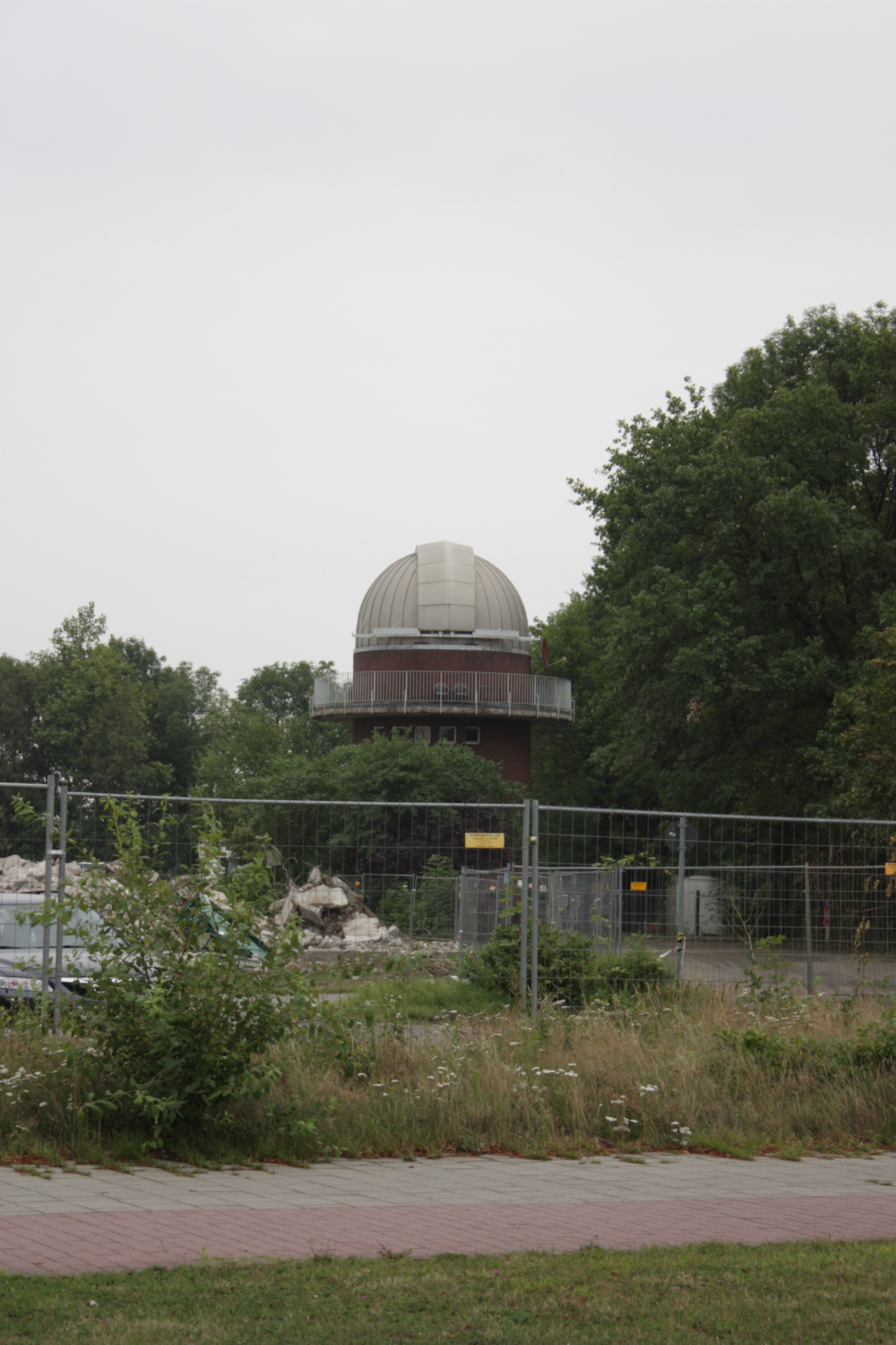 The old observatory in Muenster Gievenbeck